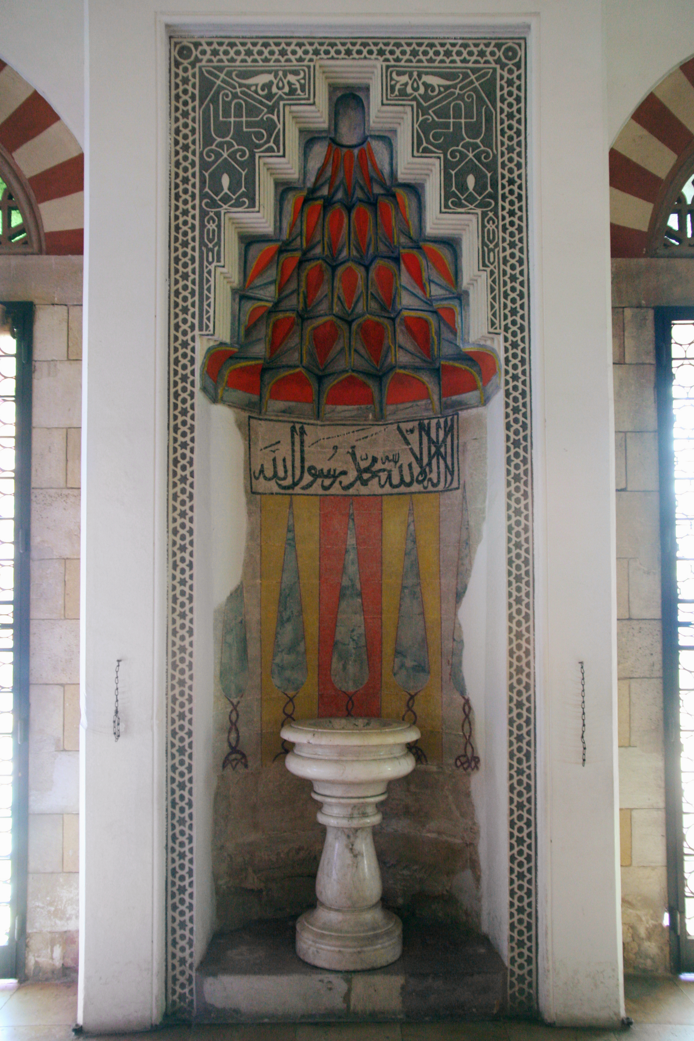 Mosque Church in Pécs (Hungary).